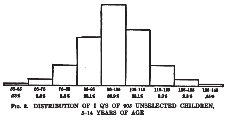 Figure 2 from Terman, L. (1916). The Measurement of Intelligence. Boston. Houghton Mifflin showing Stanford-Binet IQ distribution in a sample of 905 children.